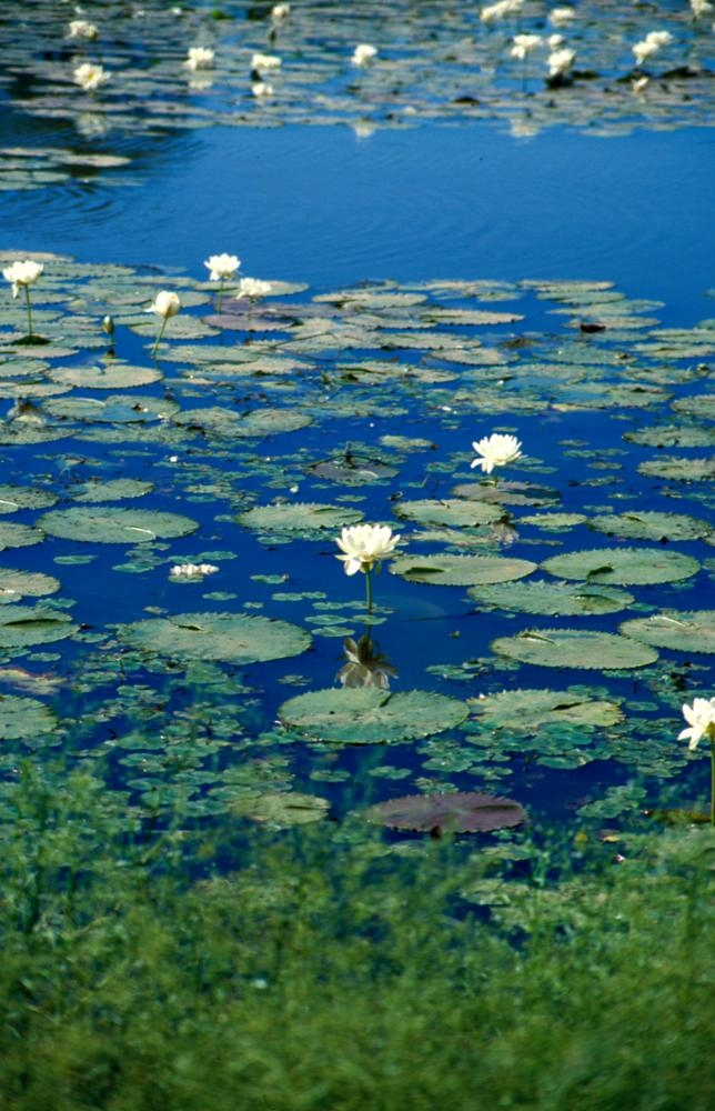 Cumberland Dam, Queensland, Australia